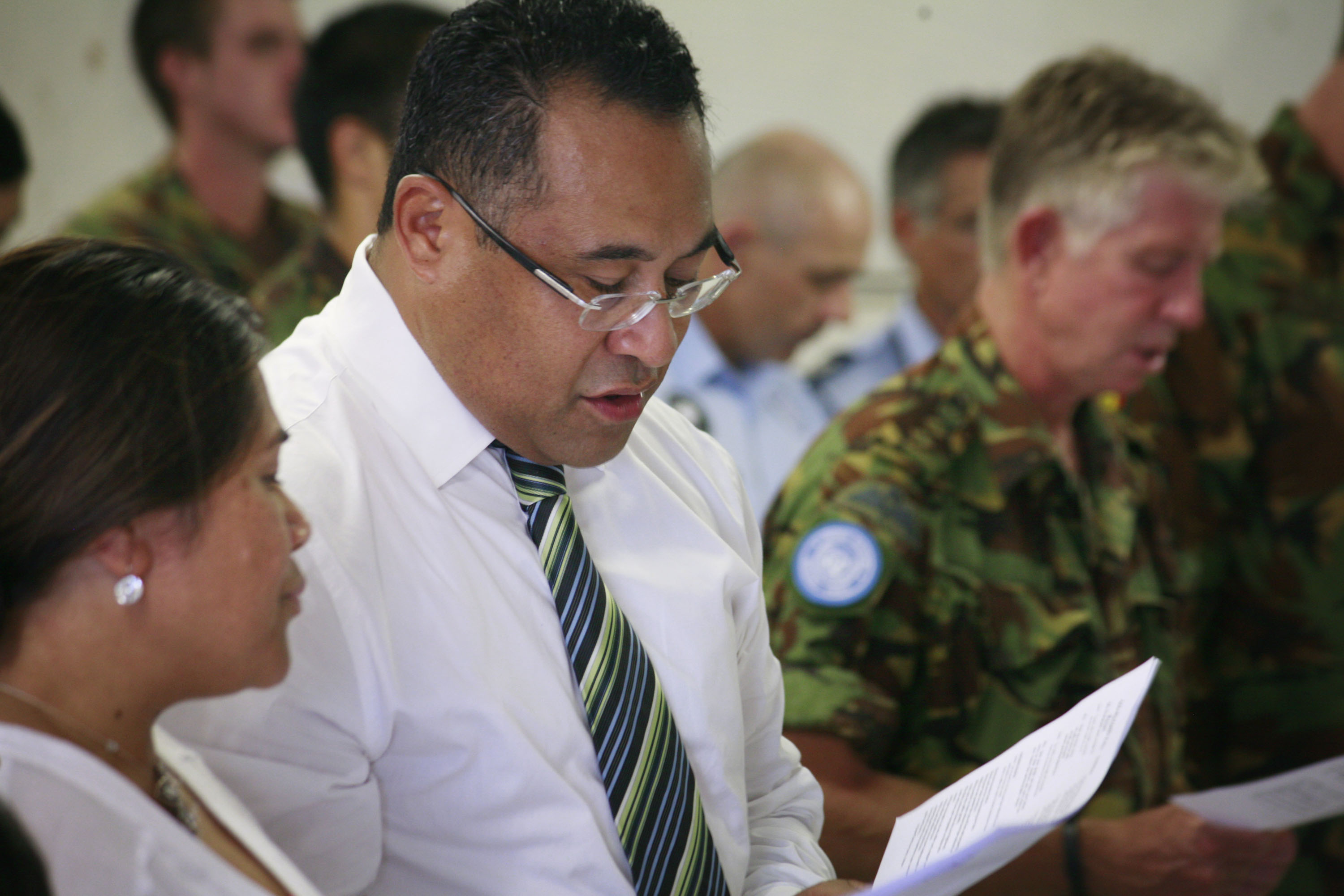 20110227adf8267338_001 New Zealand Ambassador to Timor-Leste His Excellency Tony Fautua and his wife sing a hymn in comfort to those suffering from the effects of the recent Christchurch earthquake. New Zealand troops, police and officials serving in Timor-Leste have gathered at the main New Zealand forces base in Dili to hold a service for the victims of the devastating Christchurch earthquake. Joined by fellow Australians from the International Stabilisation Forces the congregation prayed for the souls of the lost, to alleviate the suffering of the survivors and to ask for strength for those helping the city from the tragic consequences of the disaster.